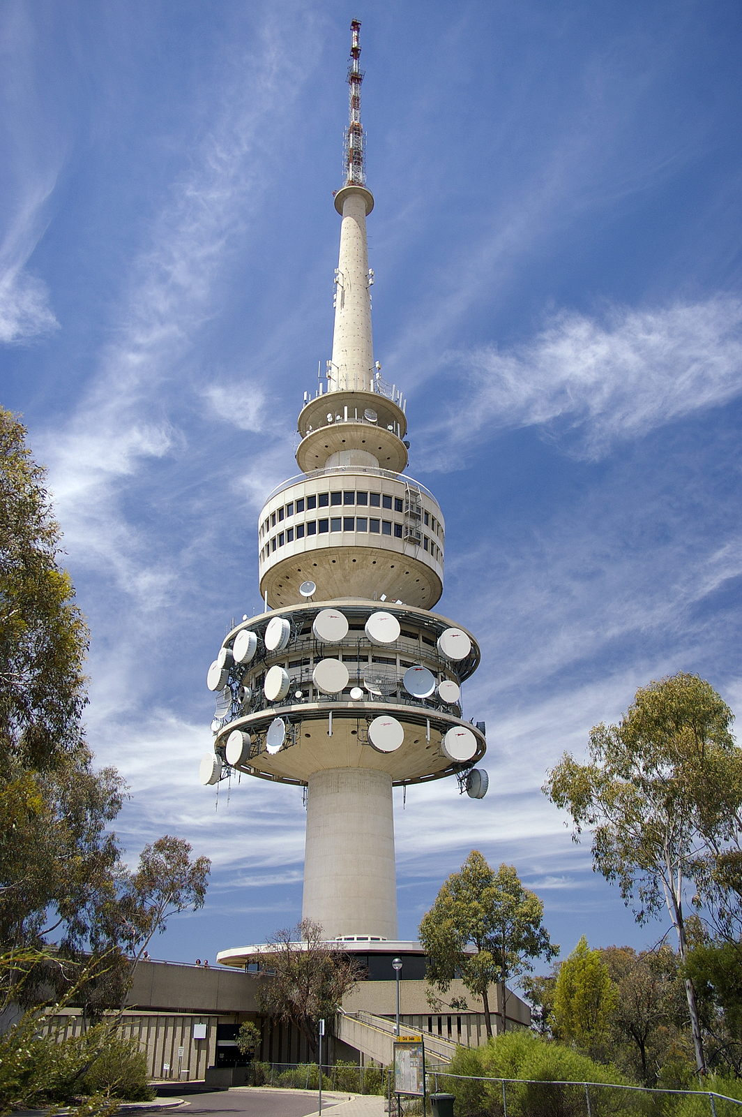 Black Mountain Tower located on Black Mountain in Canberra, Australian Capital Territory.